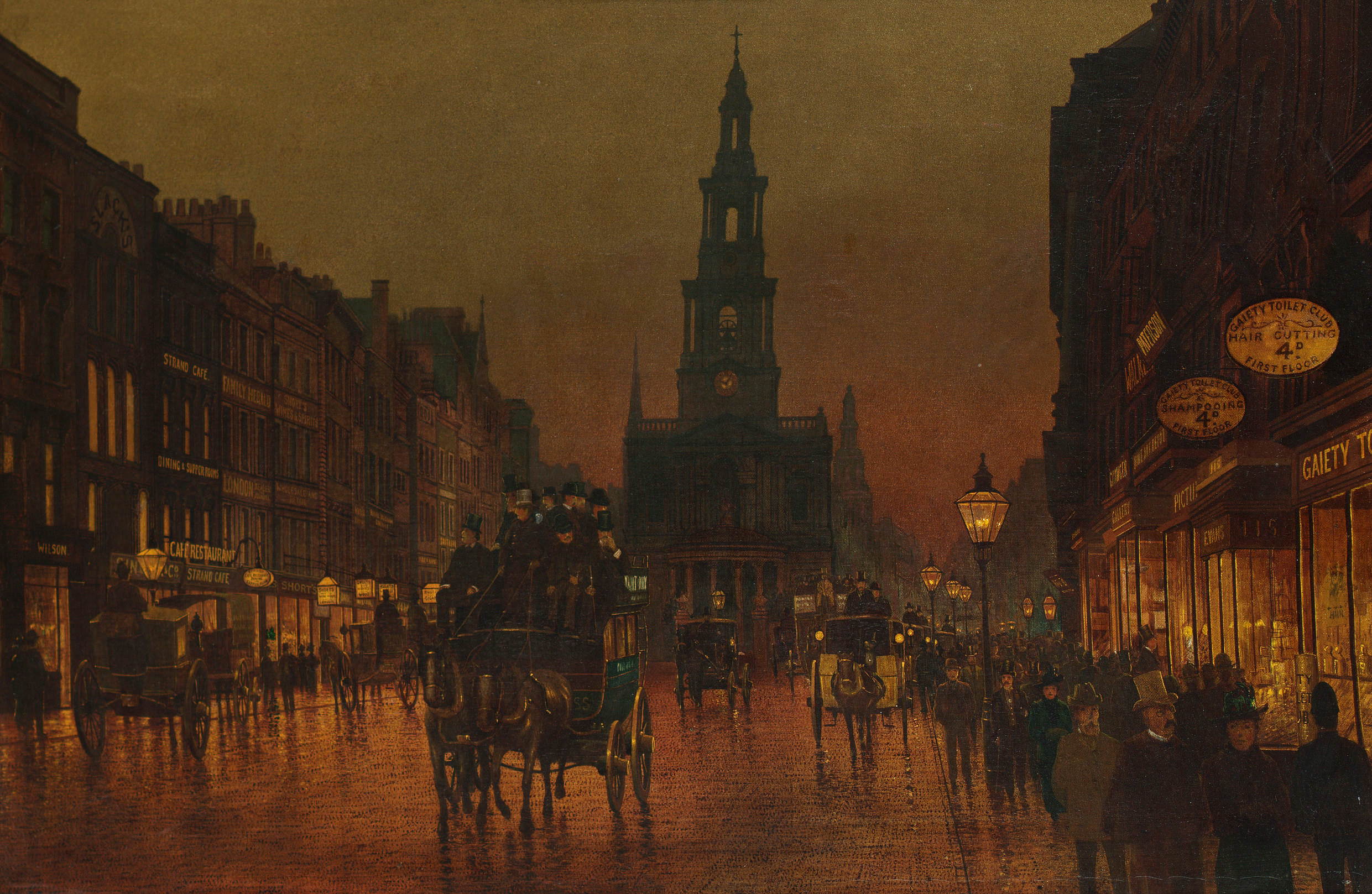 The Strand, London